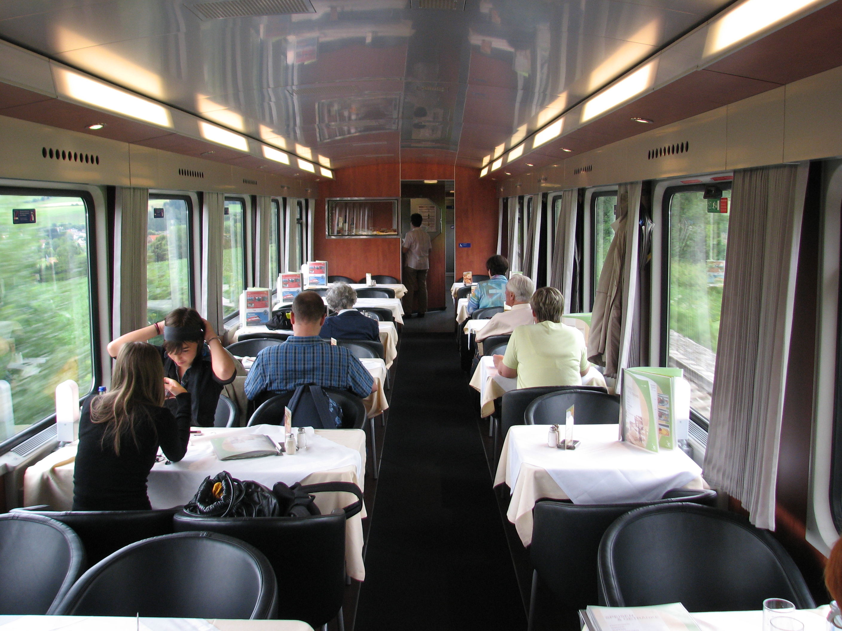 An interior view of a restaurant car onboard an Austrian train.